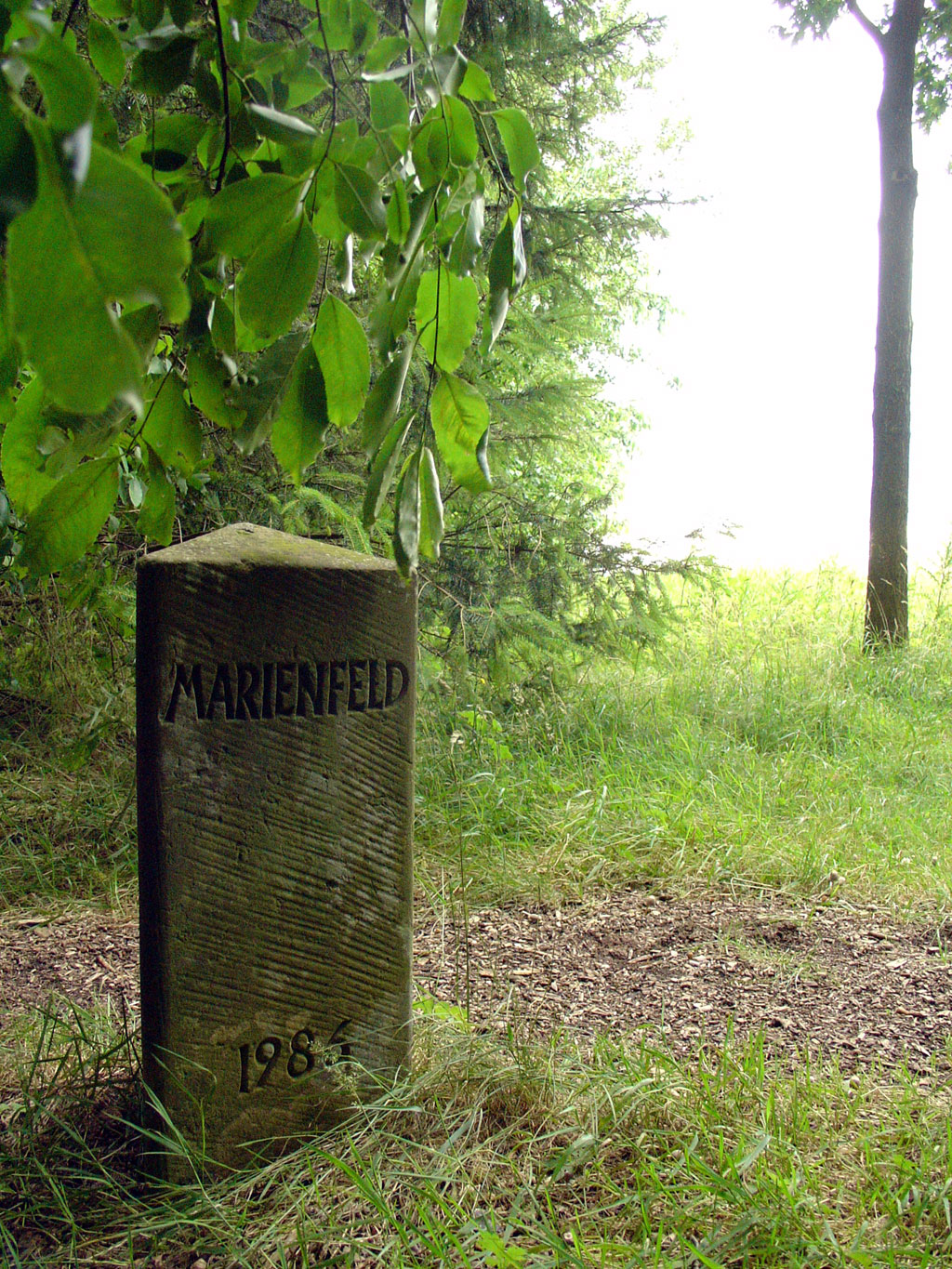 Landmark Marienfeld - Herzebrock - Clarholz